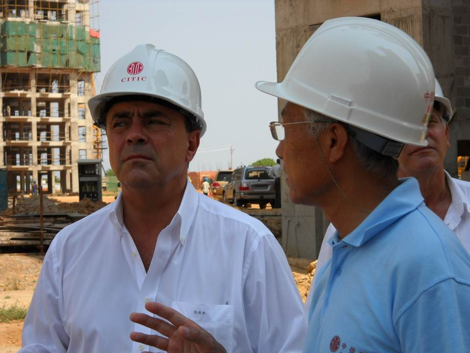 Businessman Pierre Falcone on the pharaonic construction site of Kilamba Kiaxi, Angola